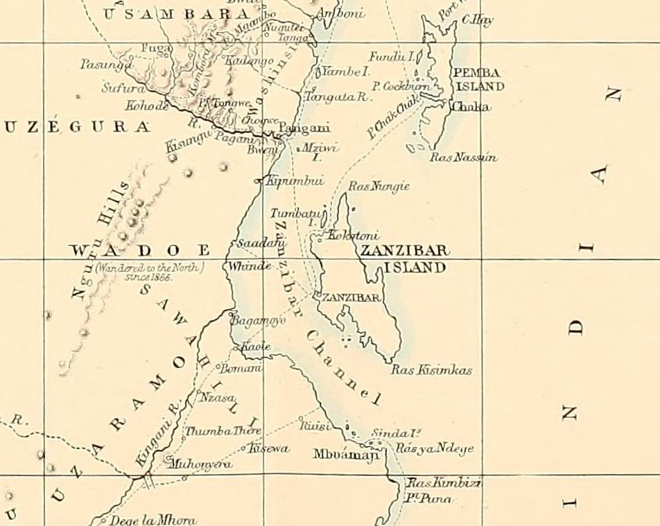 Zanzibar Channel on Zanzibar: city, island, and coast 1872 map